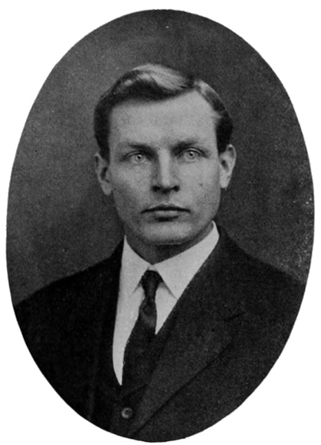 Joseph Peterson, psychologist, from the 1911 edition of the Banyan yearbook